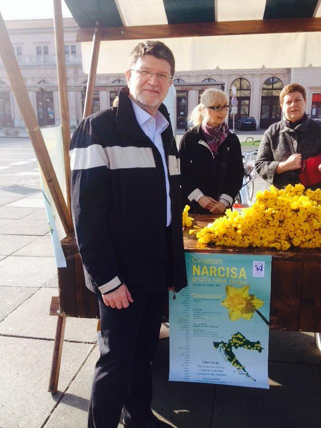 Croatian MEP Tonino Picula in a public action against breast cancer.